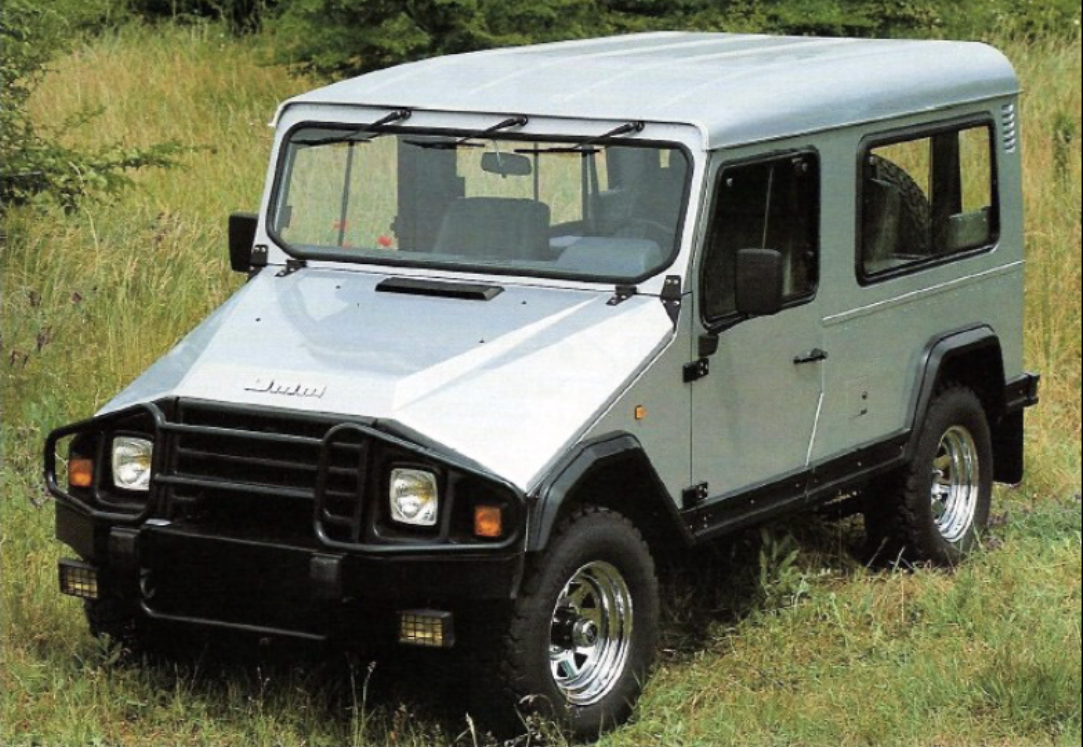 UMM Alter II 1992